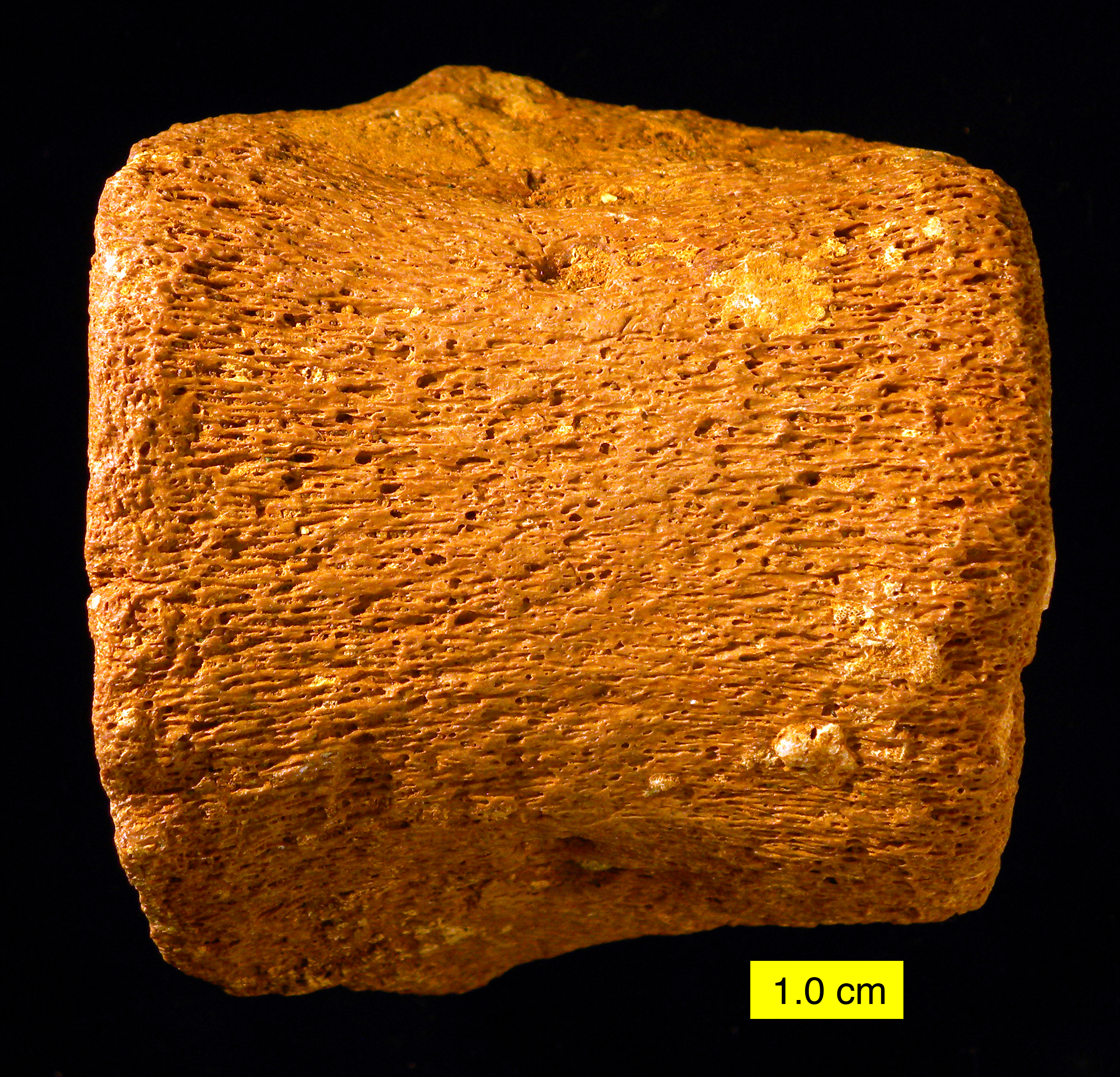 Eroded Jurassic plesiosaur vertebral centrum found in the Lower Cretaceous Faringdon Sponge Gravels in Faringdon, England. An example of a remanié fossil.